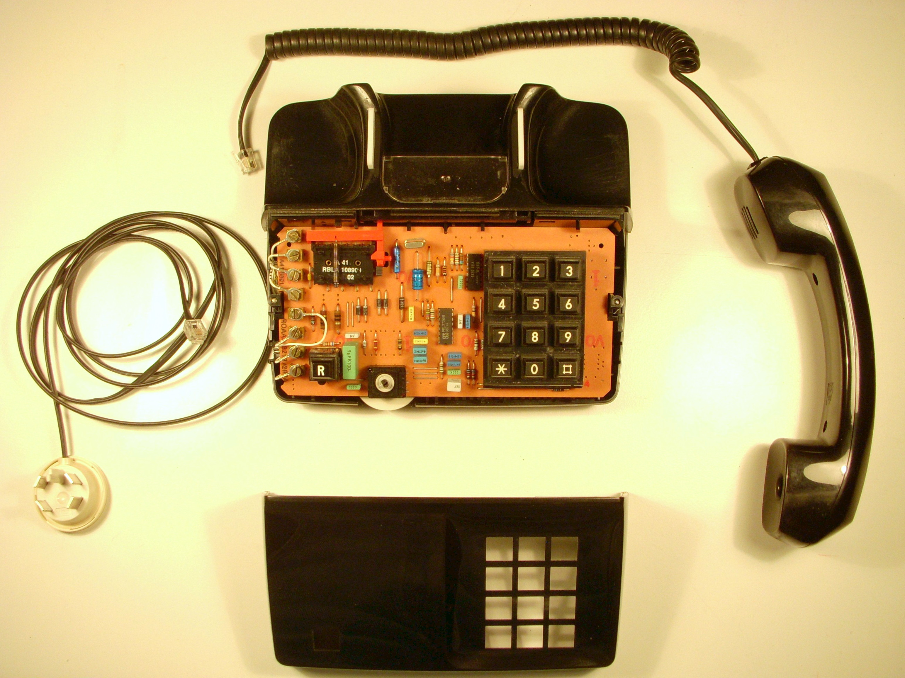 Ericsson Diavox telephone, made for Televerket (national telecom), Sweden.